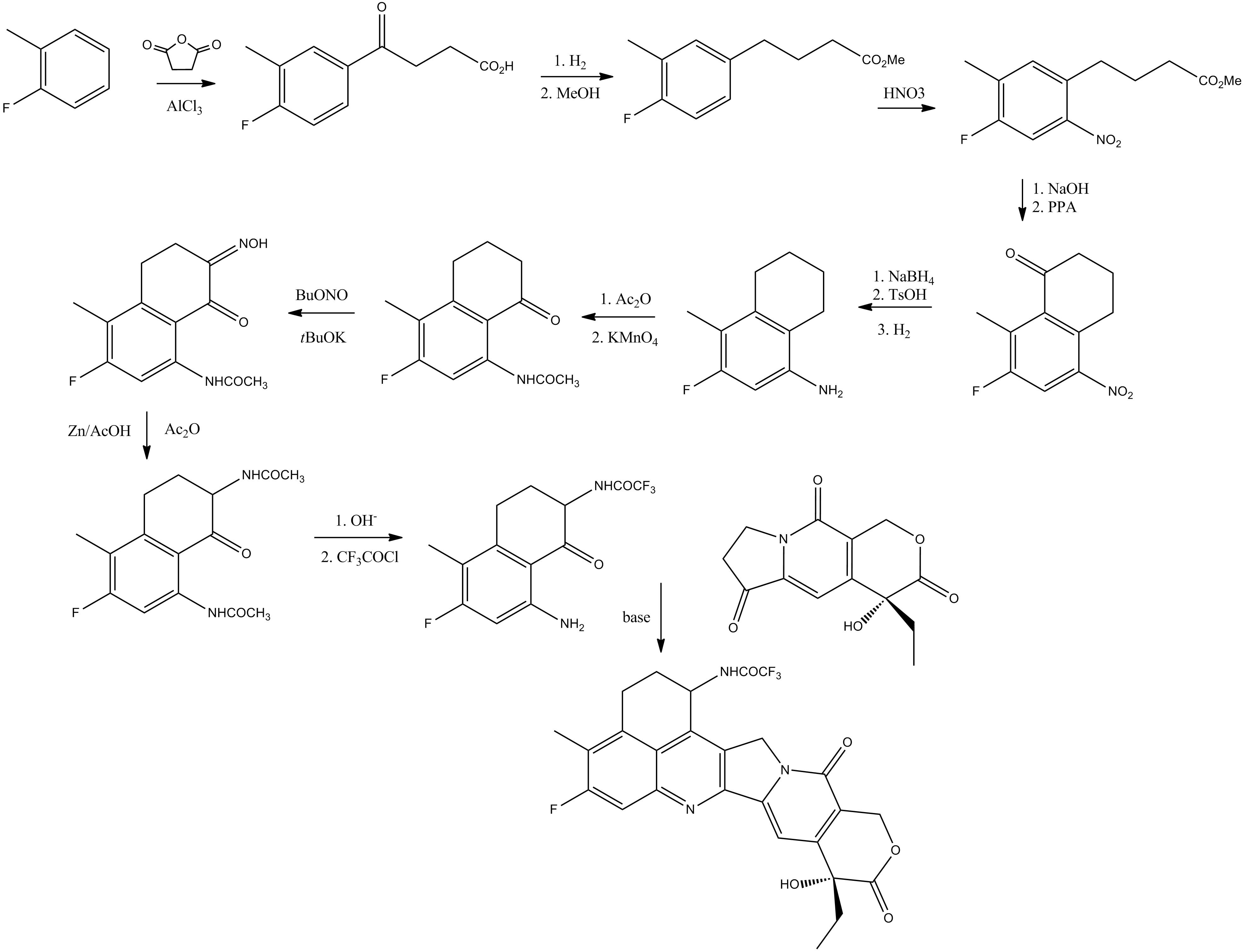 H. Terasawa, A. Ejima, S. Ohsuki, K. Uoto, U.S. Patent 5,834,476 (1998).